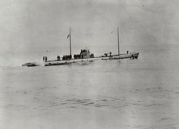 Photograph of the former German submarine U 111 while undergoing tests by the U.S. Navy in 1919.